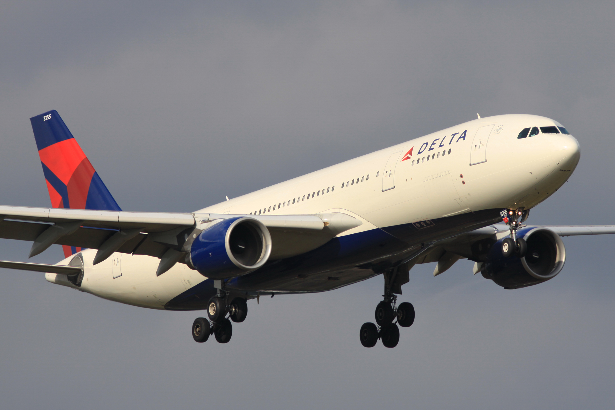 Narita International Airport, Airbus A330-223, c/n:621, Delta Airlines